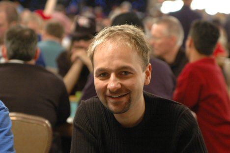 Daniel Negreanu at 2005 World Series of Poker Rio Las Vegas